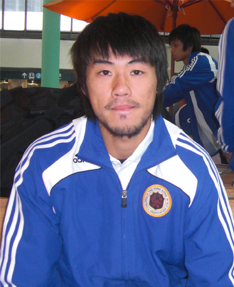 Lee Hon Ho of Hong Kong Football Team